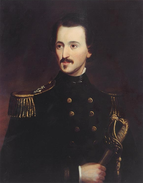 Melancthon Brooks Woolsey (1817-1874) Image has been cropped from original. Caption at top removed, read: Photo # KN-10908 Lt. Melancthon B. Woolsey, USN. Portrait by Henry Woodward Photo #: KN-10908 (Color) Lieutenant Melancthon Brooks Woolsey, USN (1817-1874) Oil on canvas, 30" x 25", by Henry Woodward (active 1848-1852). Painting in the U.S. Naval Academy Museum Collection. Transferred from the U.S. Naval Lyceum, 1892. Official U.S. Navy Photograph.